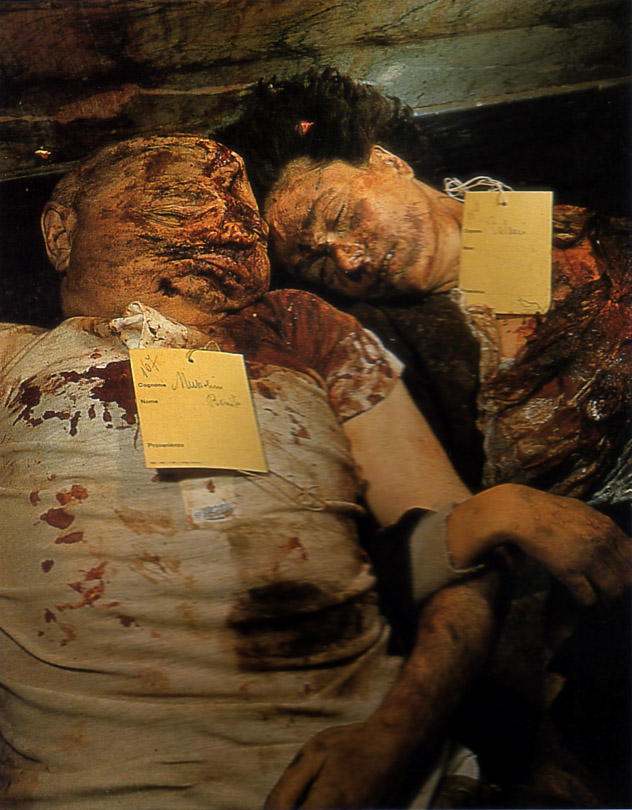 Benito Mussolini lies beside his mistress, Clara Petacci in a morgue in Milan, Italy after execution, public display and mutilation.